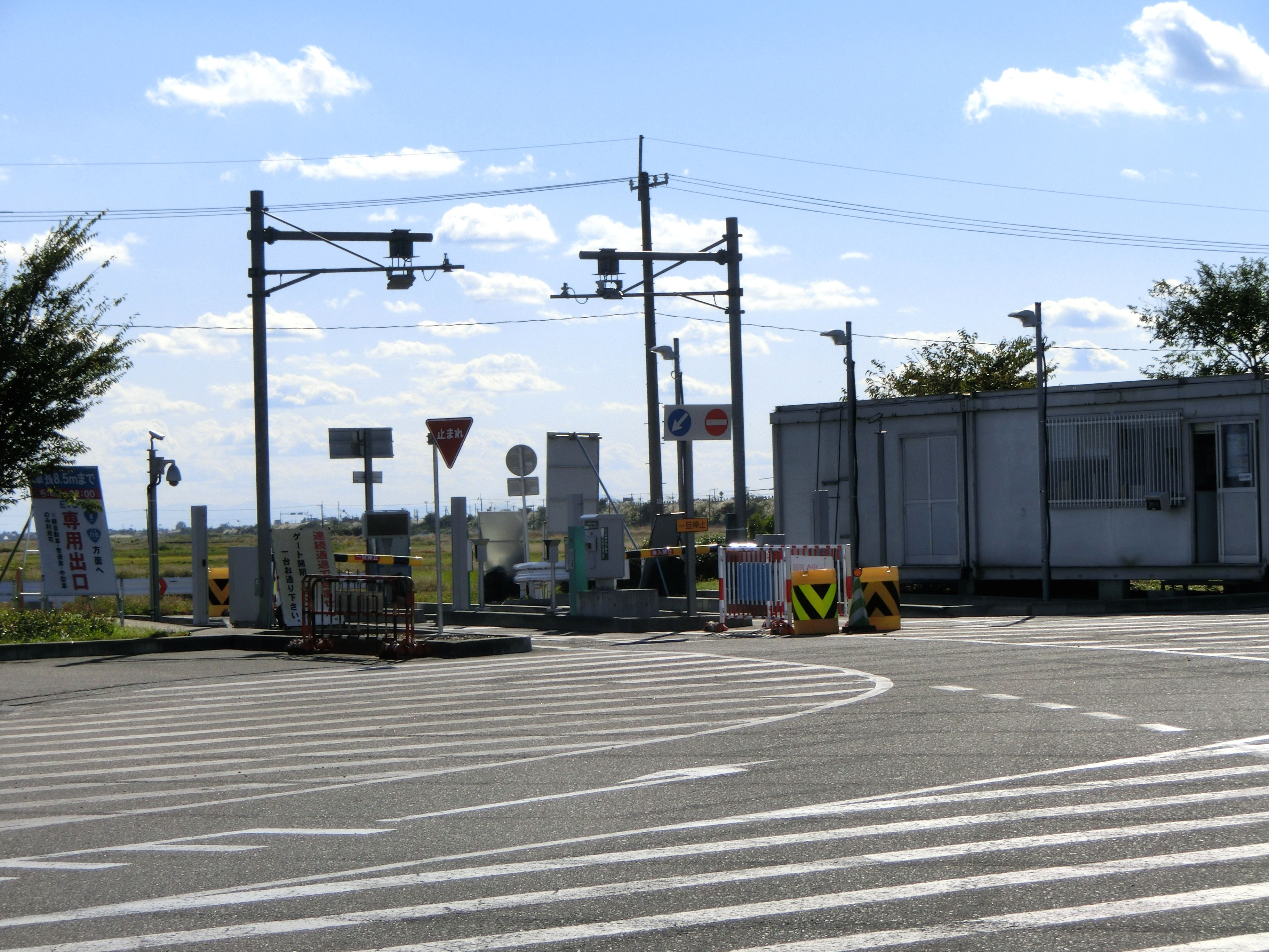 Kurosaki Smart Interchange on the Hokuriku Expressway inbound line